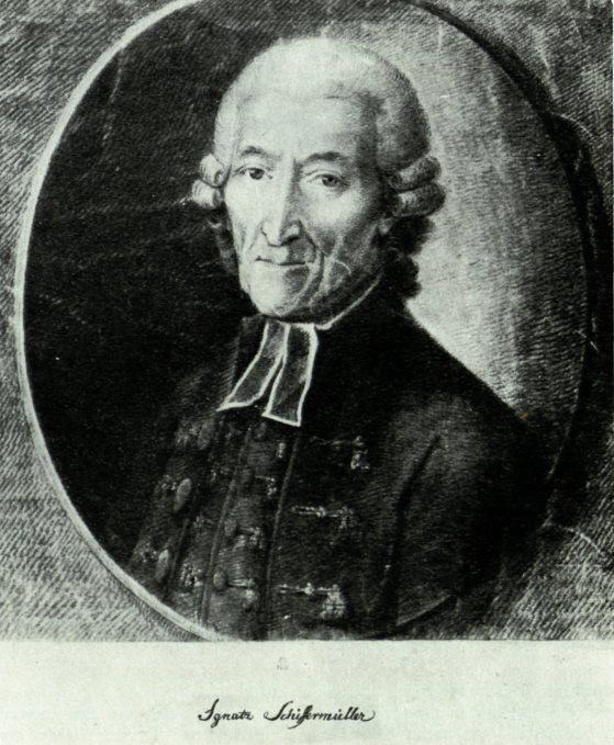 Austrian theologian, professor and entomologist.